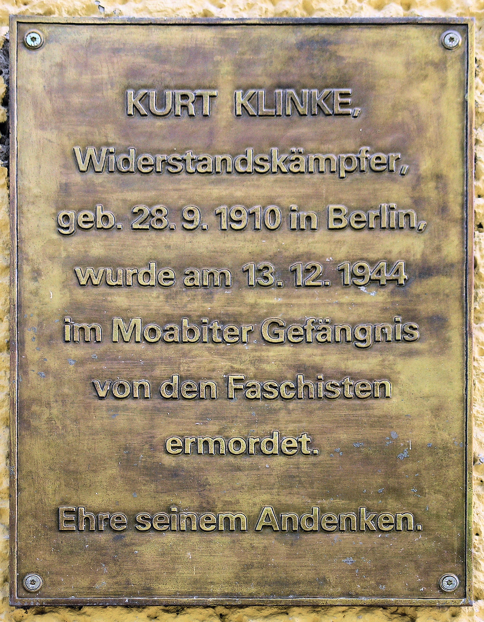 Memorial plaque, Kurt Klinke, Strelitzer Straße 18, Berlin-Gesundbrunnen, Germany Koordinate:52°32′8.8″N 13°23′41.4″E / 52.535778°N 13.394833°E